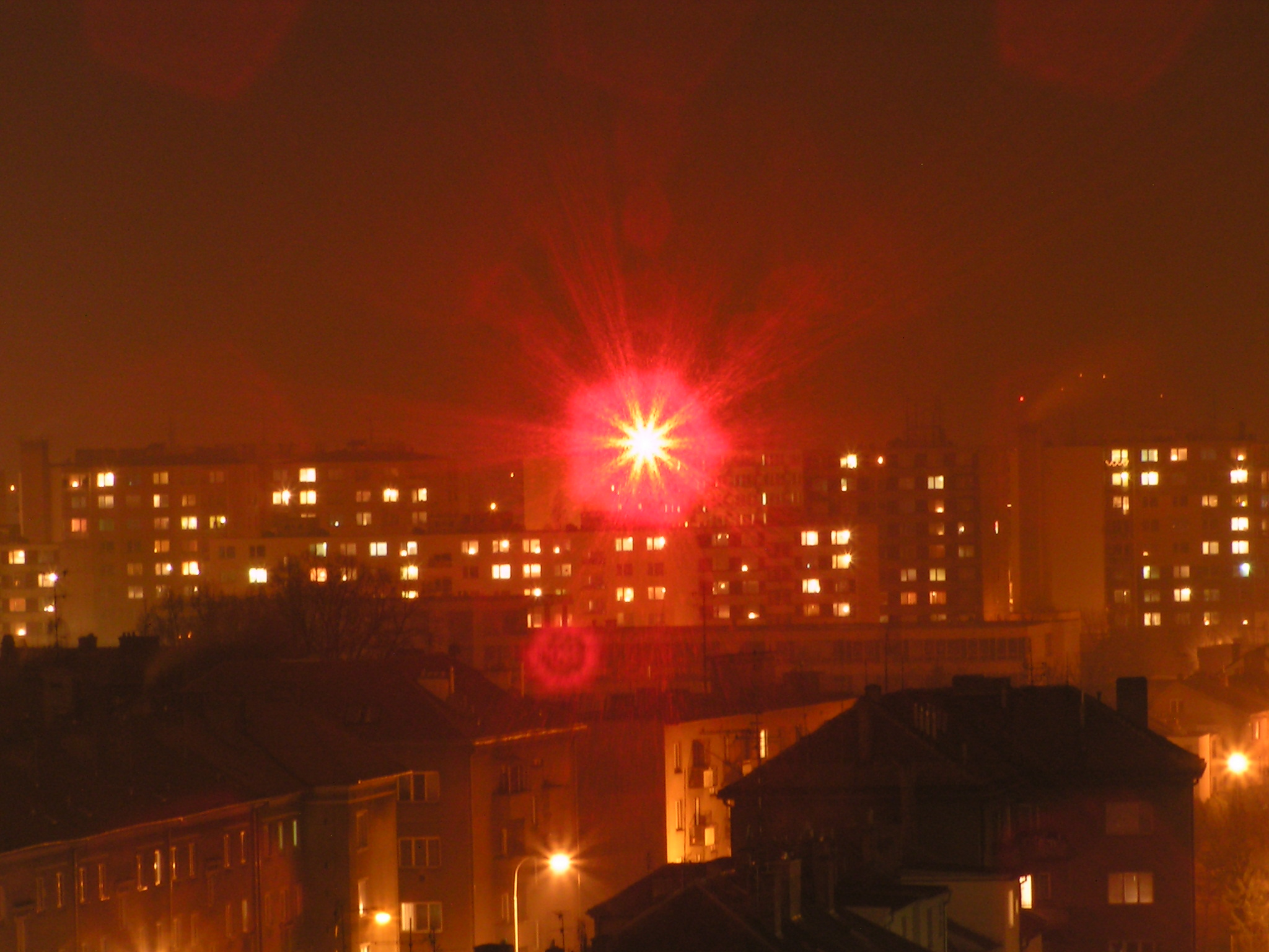 Ronja light beam as observed from a point on the other side of the datalink track. The beam is generated by a single high-output LED with a 13 cm glass lens. The beam looks impressive. It is because it's night and because the light from the LED is concentrated into a narrow beam. The beam is about 4 meters wide in 1 km distance. If you walk few steps from the observer point, the bright light vanishes. The place is Prostejov, Czech Republic.